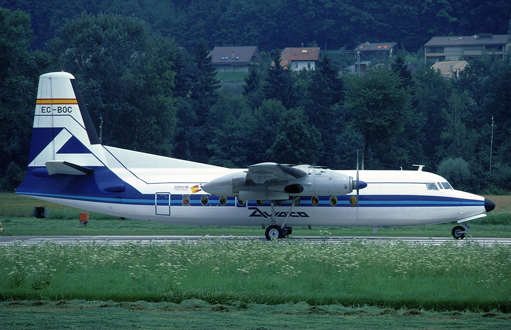 An Aviaco Fokker F-27-400 Friendship at Bern Airport (BRN / LSZB)